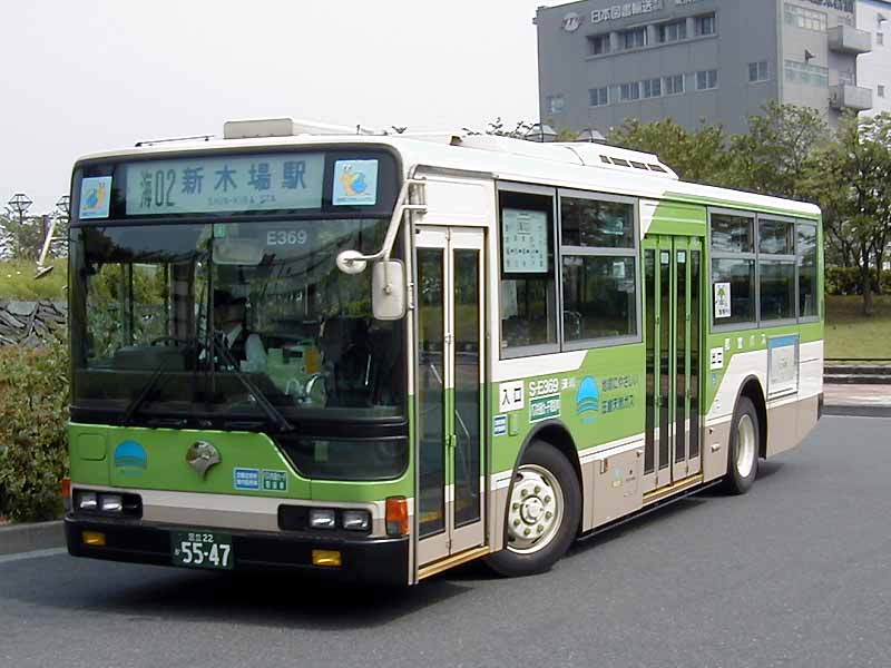 Toei Bus Umi02 route (2003 abandoned) Model: Mitsubishi Fuso Aero Star KC-MP717K License plate: TKA22 KA5547 Place: Shin-kiba Station: Koto ward, Tokyo Japan